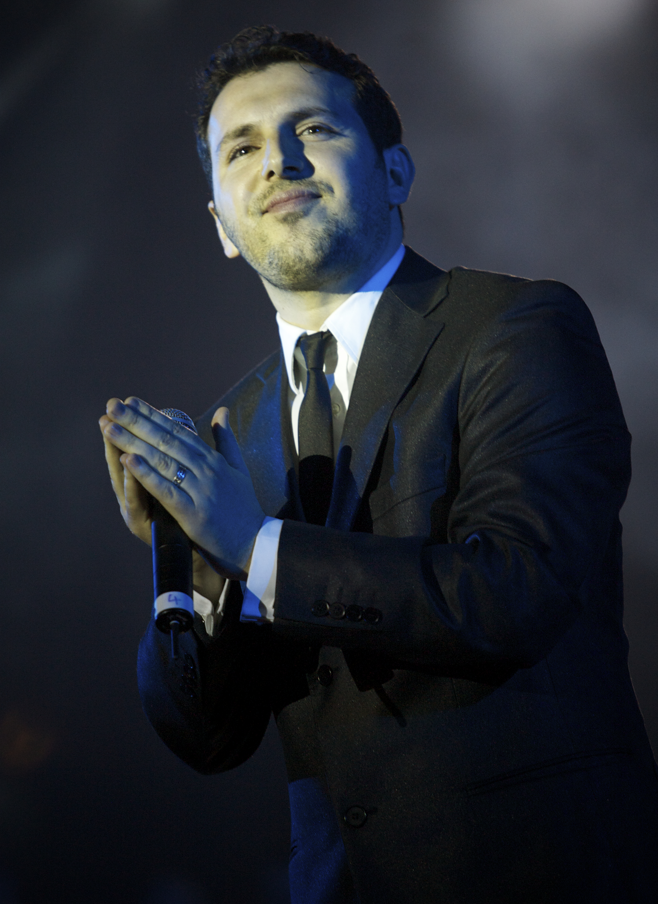 Mesut Kurtis perform in Apollo theatre, London